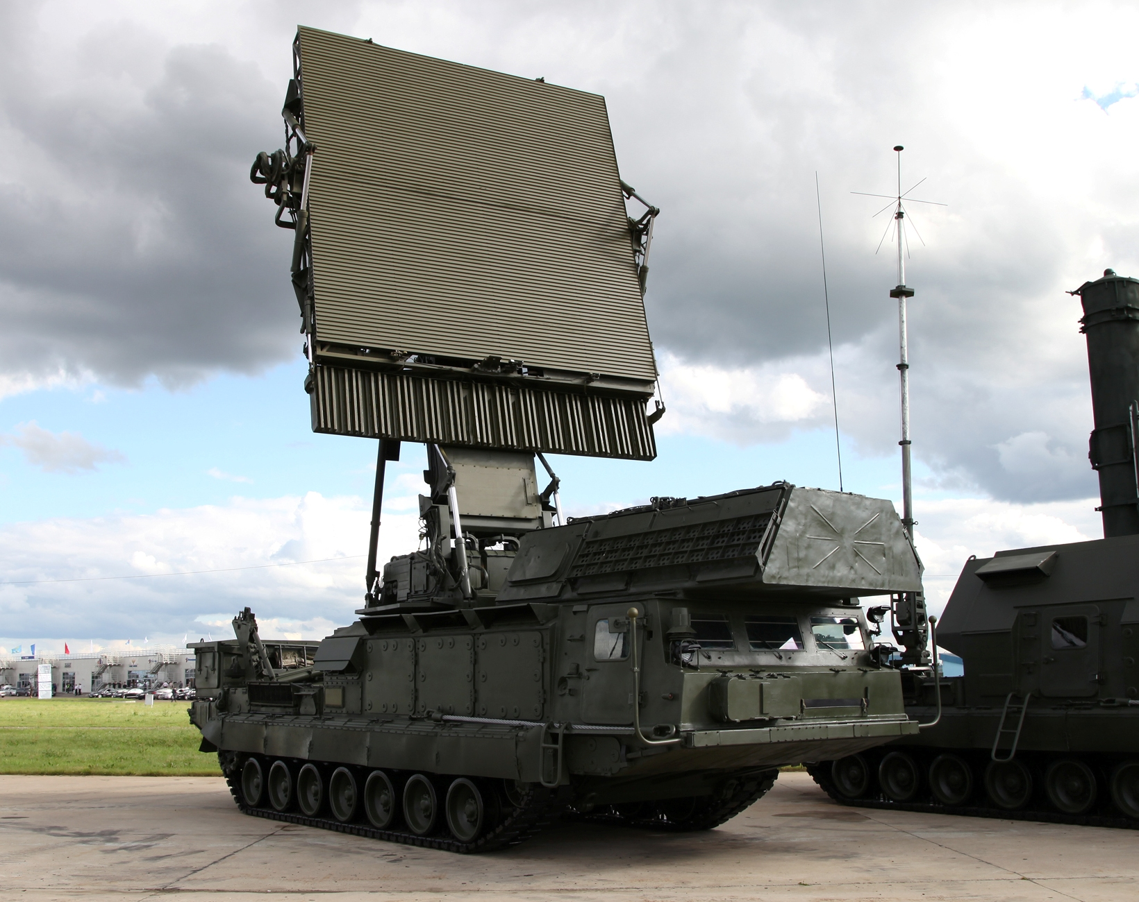 S-300V air defence system at Engineering Technologies 2012 in Russia.